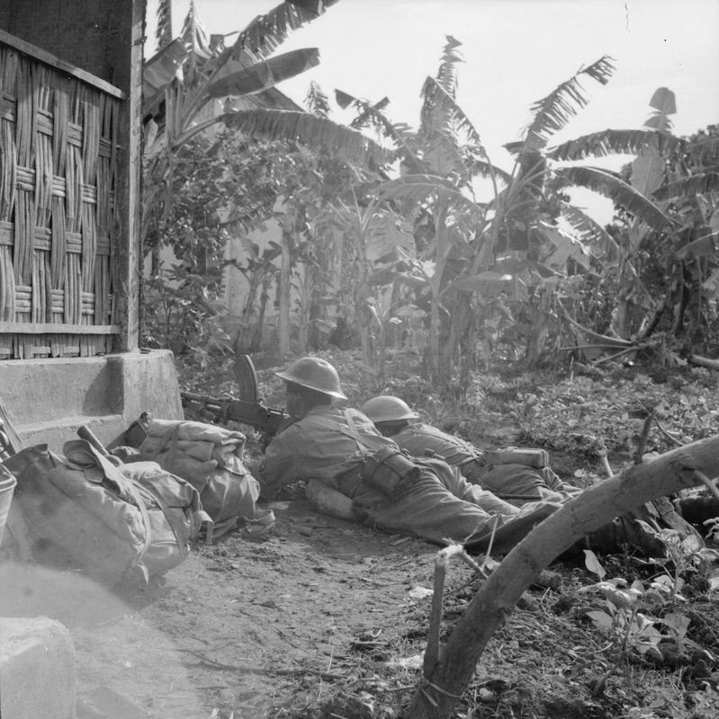 The British Occupation of Java Bren gunners of the 3/9th Jats cover the advance of their regiment against Indonesian nationalists in Surabaya (Soerabaja).